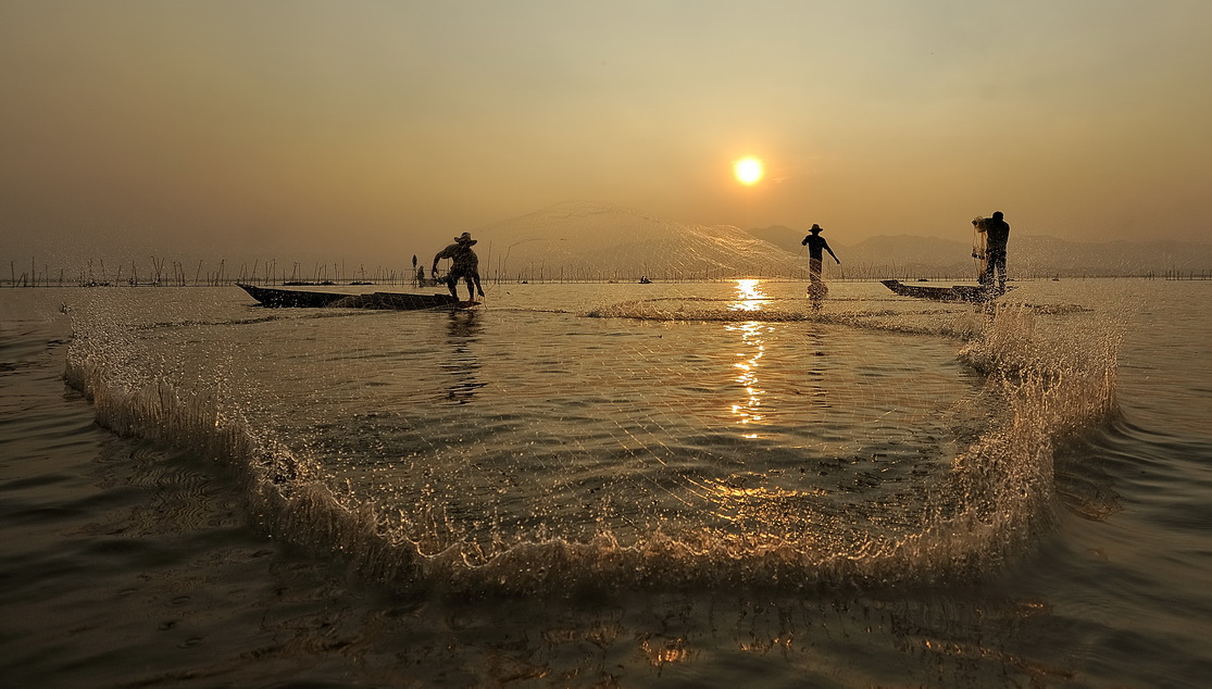 Kwan Phayao1